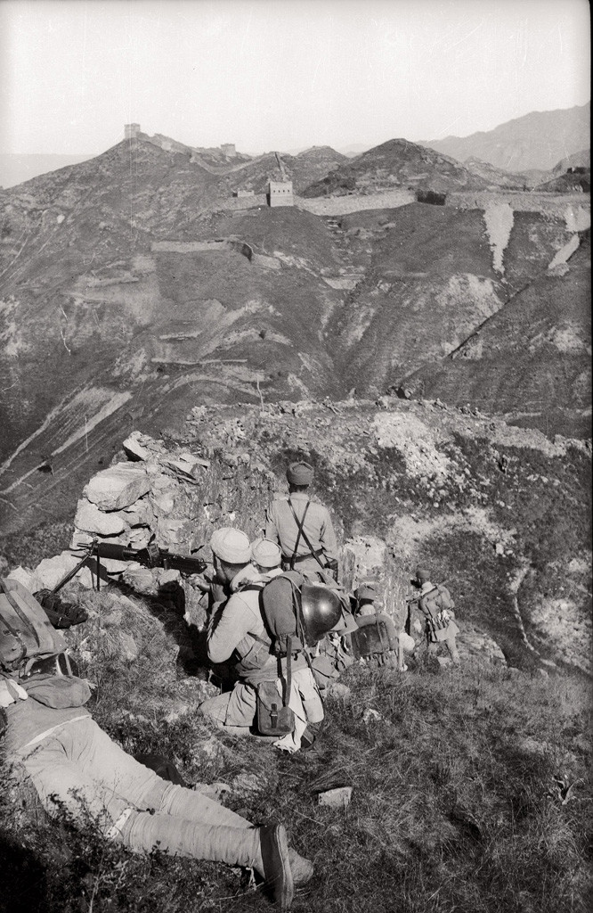 Battle at Great Wall, Laiyuan, Hebei, autumn 1937